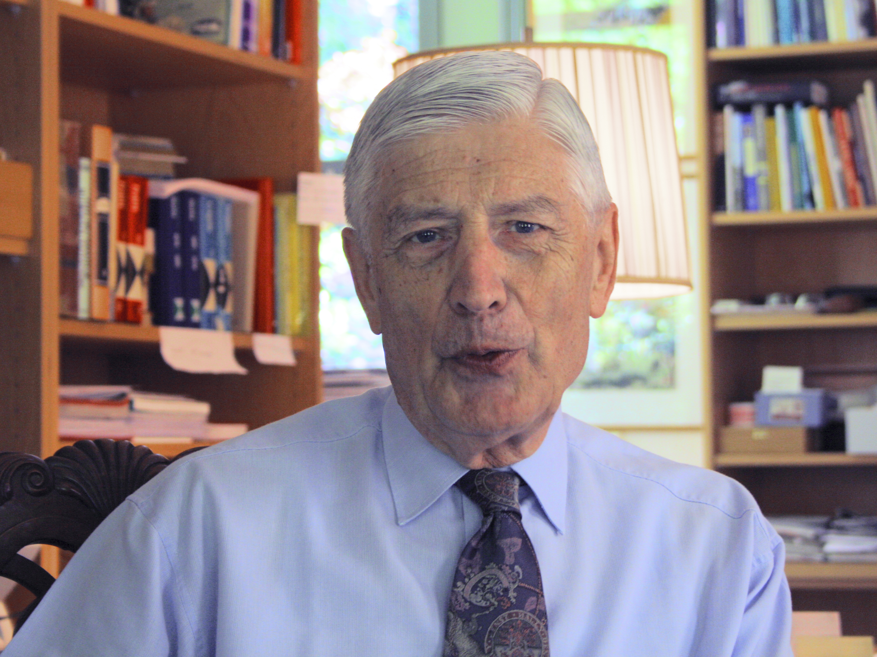 Photo of former Dutch prime minister Dries van Agt